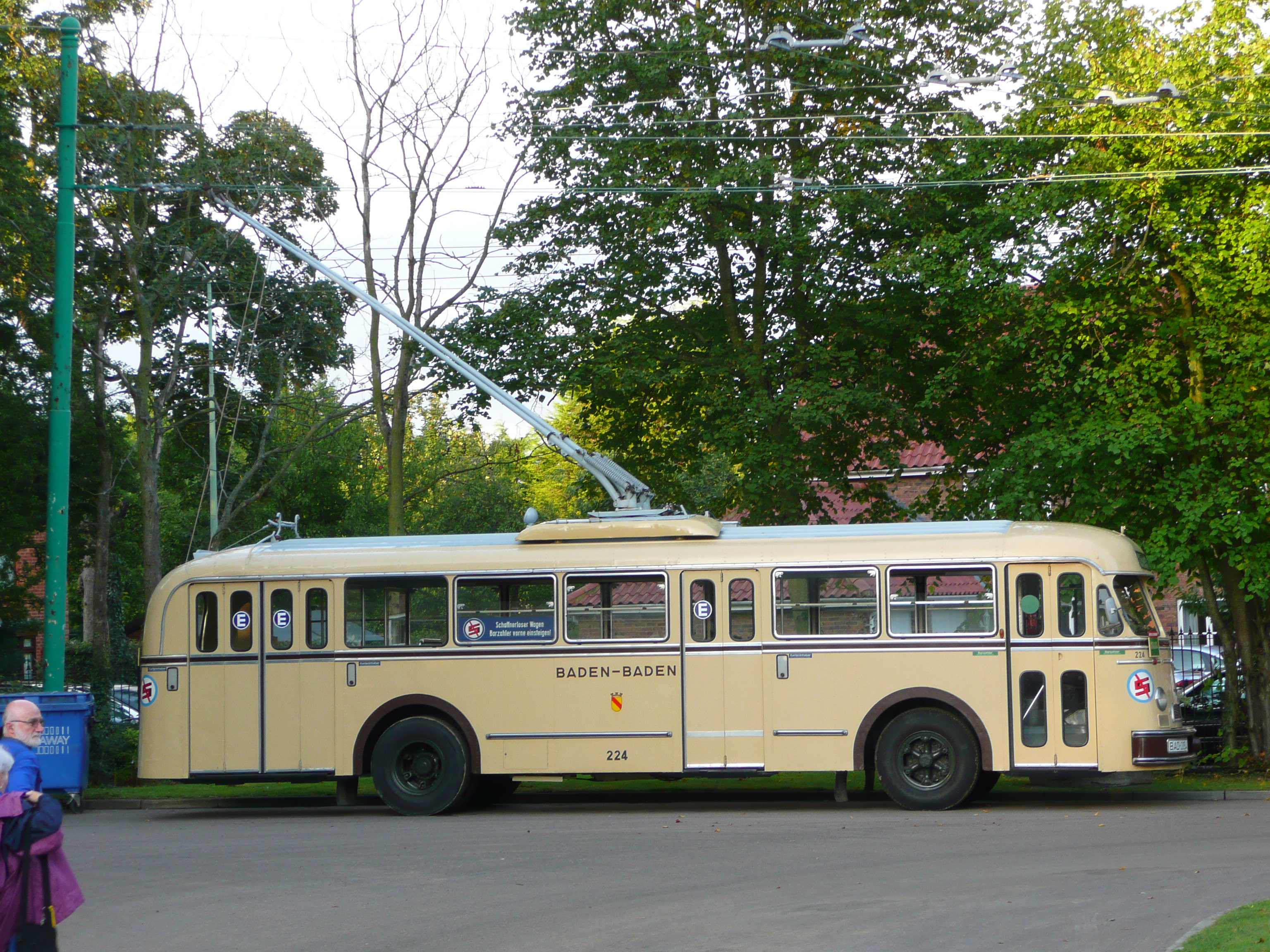 Baden Baden 224 Trolleybus at the East Anglia Transport Museum.